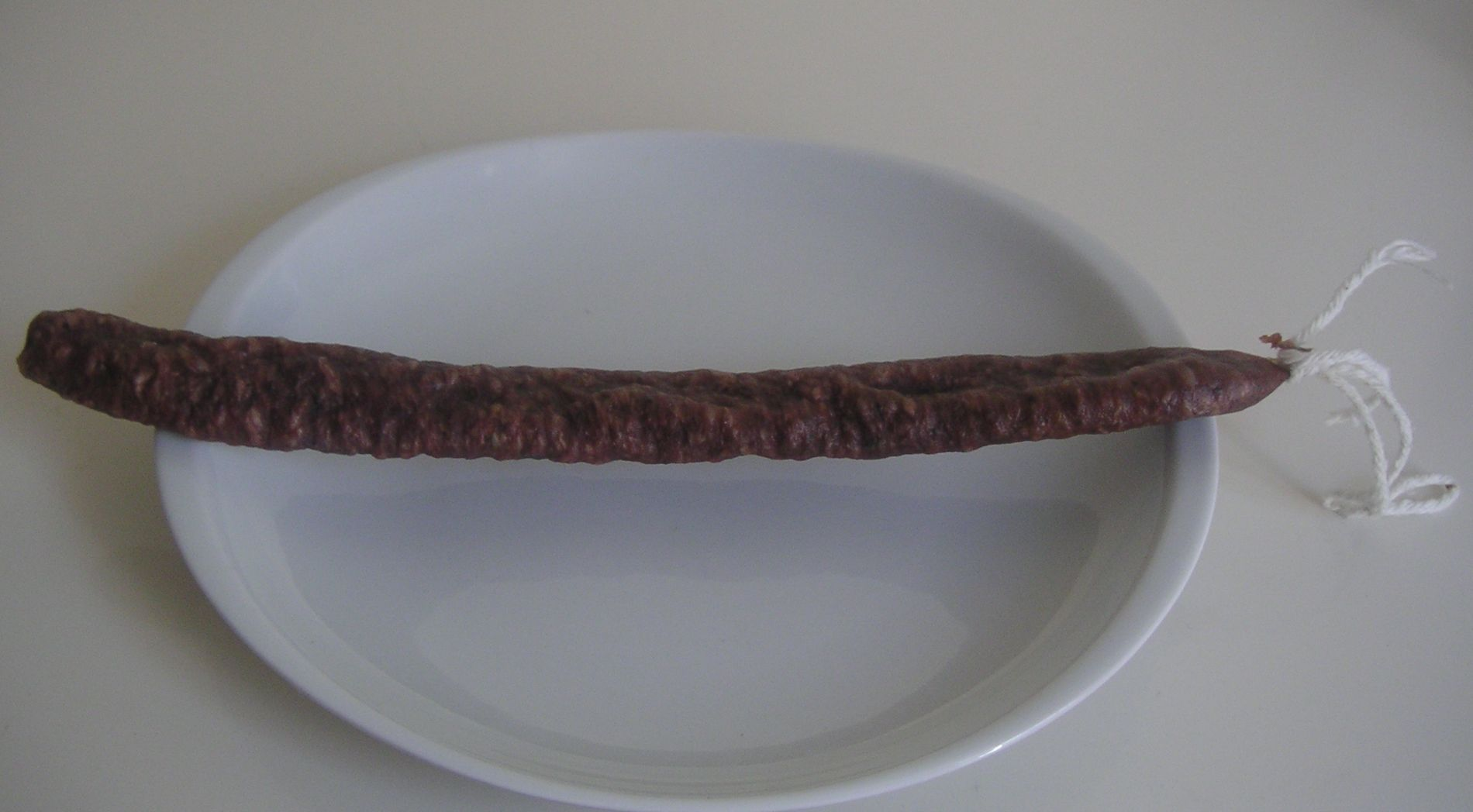 A secallona is a Catalan charcutery similar to "fuet".